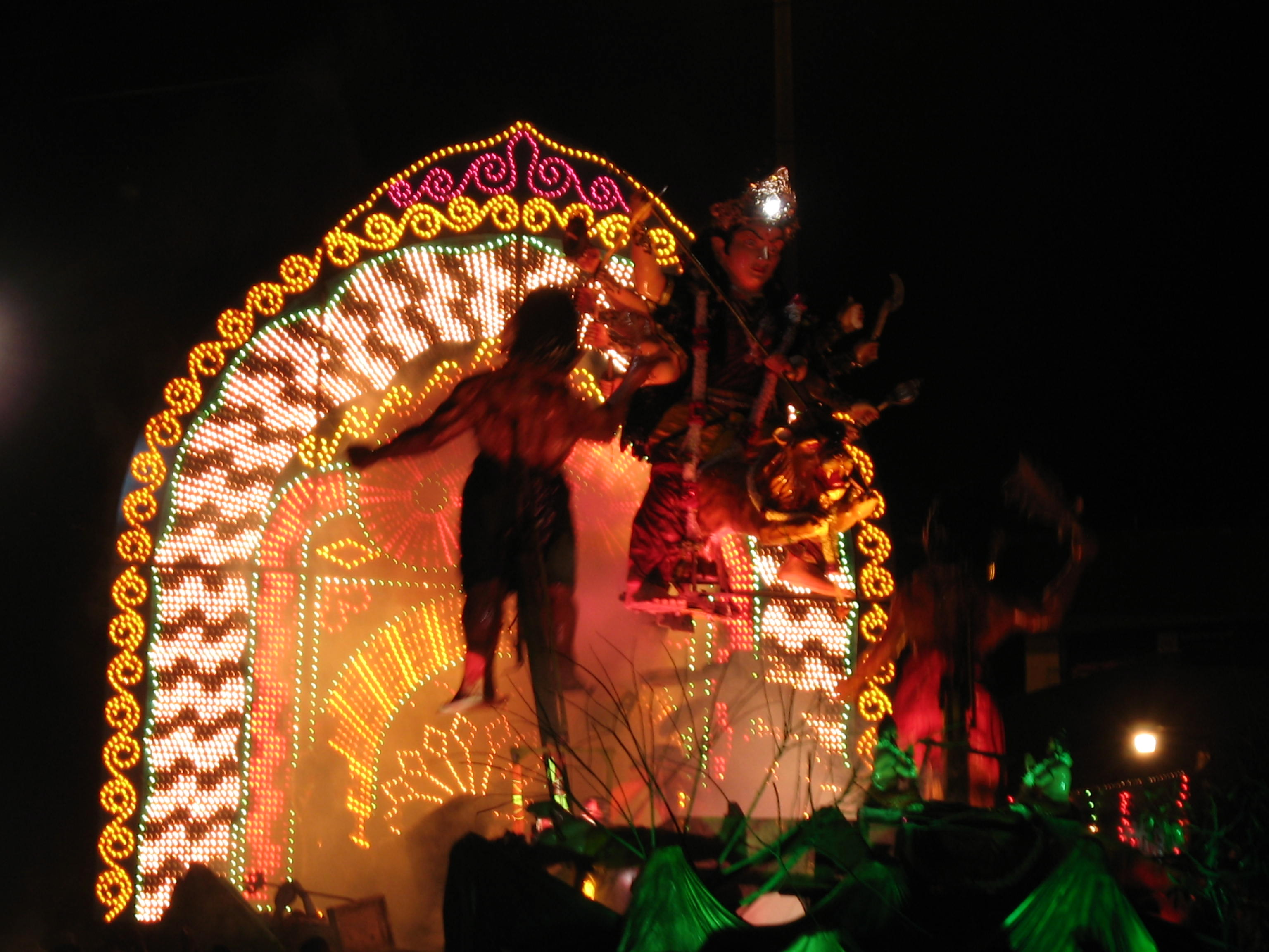 Image of Mantapa in Madikeri Dasara procession